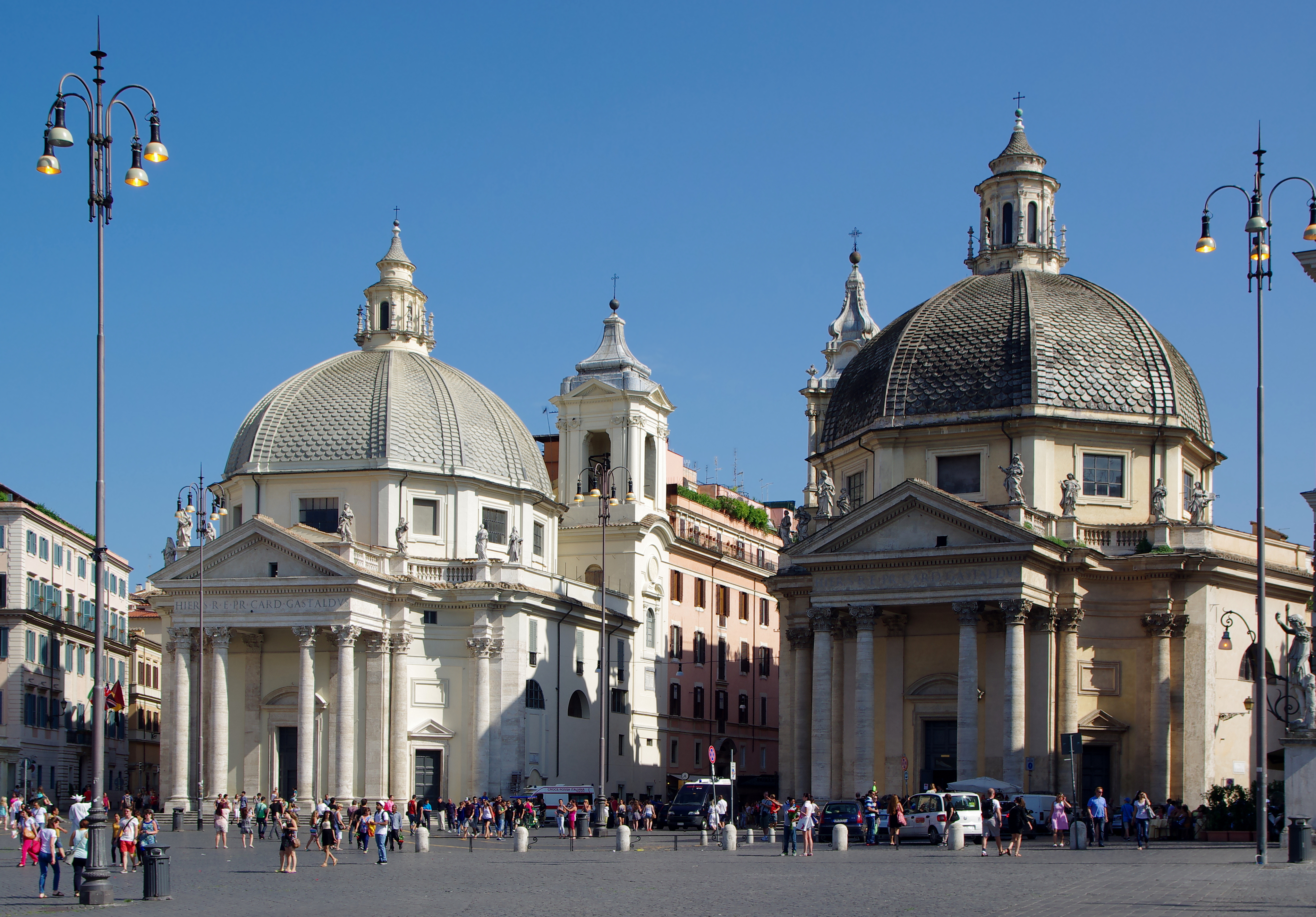 The "twin" churches of Santa Maria di Montesanto (left) and Santa Maria dei Miracoli (right), seen from Piazza del Popolo